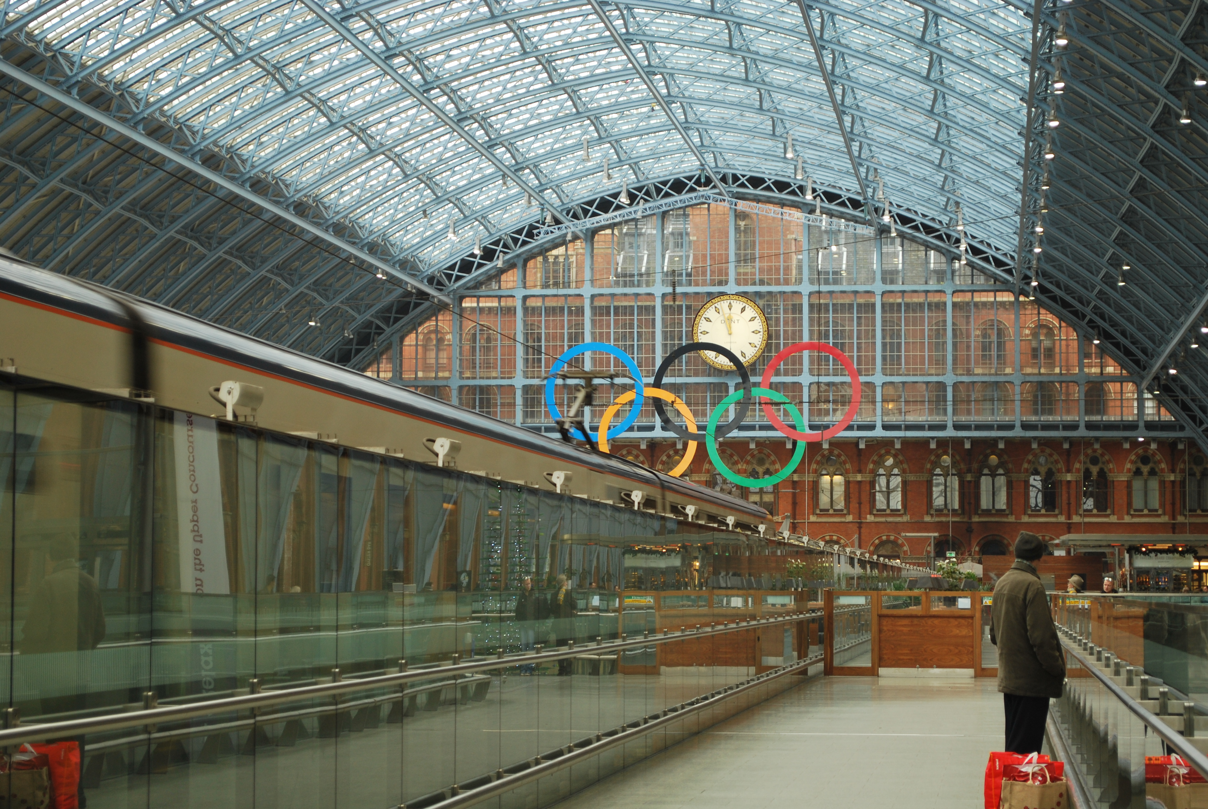 I took this photo with my own camera and have the complete rights to it.